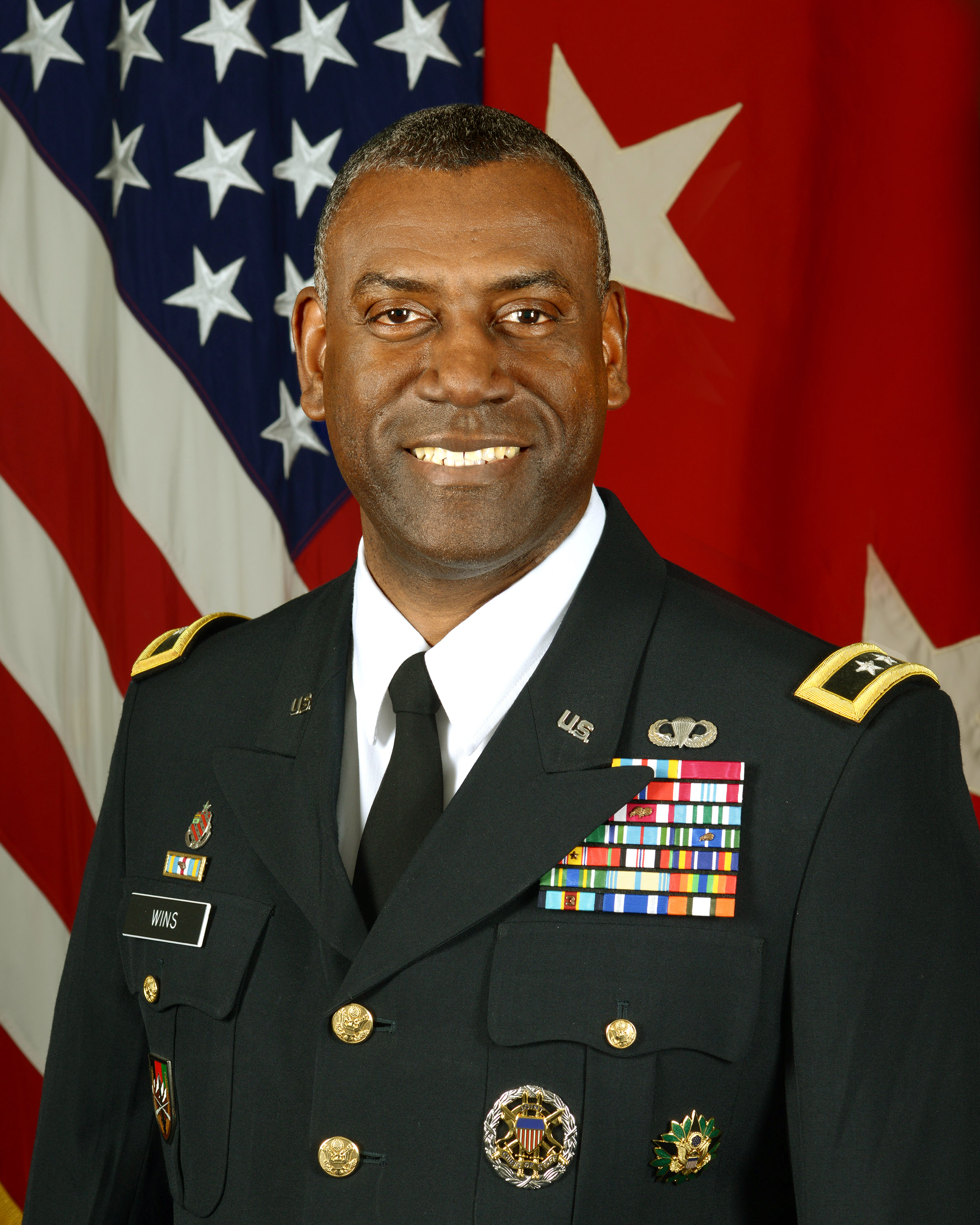 Maj. Gen. Cedric Wins, Commanding General, Research Development Engineering Command, Aberdeen Proving Ground, Aberdeen, MD, poses for a command portrait in the Army portrait studio at the Pentagon in Arlington, VA, July 22, 2016. (U.S. Army photo by Monica King/Released)